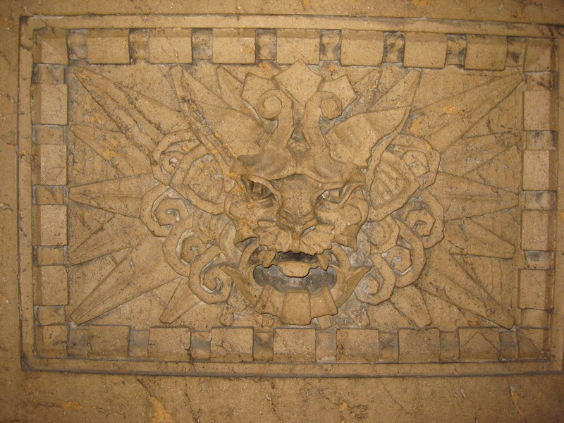 lion detail from one of the grand rooms